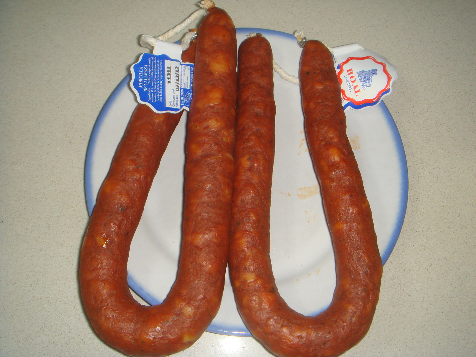 Pumpkin blood sausage, La Torre, Ávila, Spain